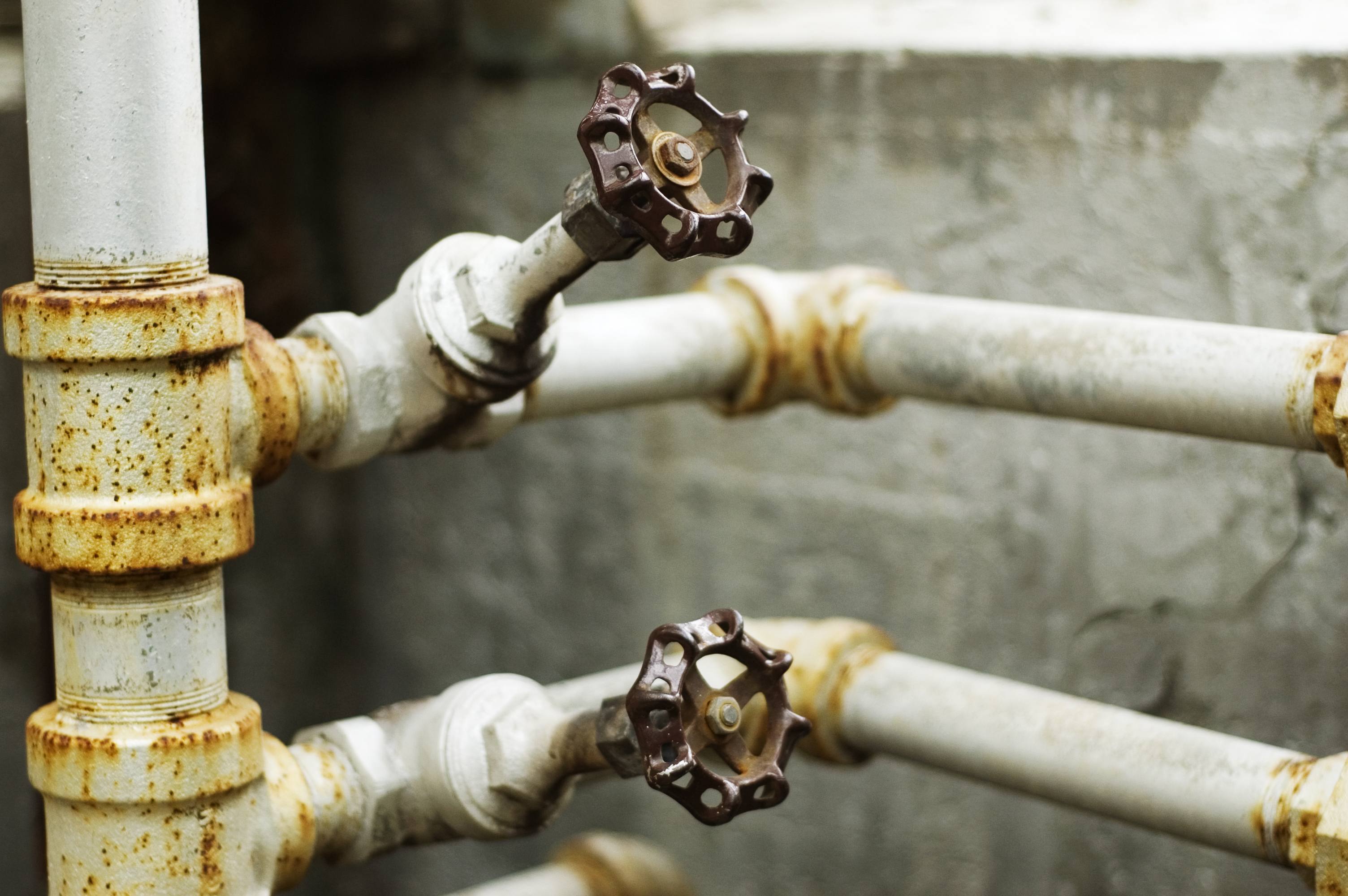 Two water valves regulated by spigots.